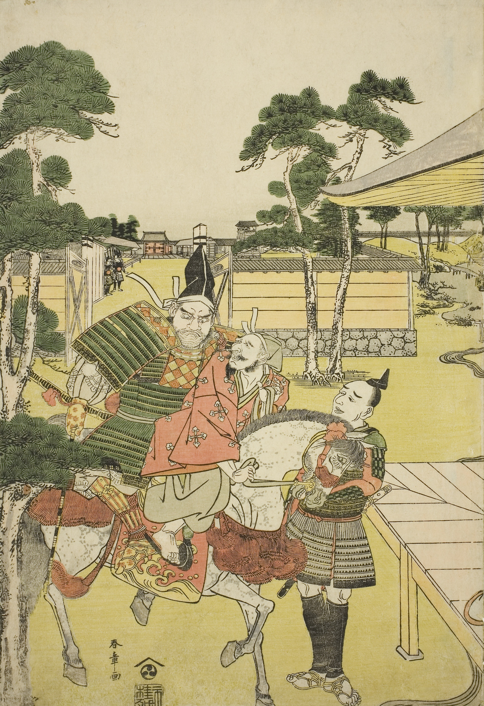 Musashibo Benkei Brings the Captured Tosabo Shoshun to Yoshitsune in the Play Horikawa Youchi no Zu Uki-e Nimaitsuzuki